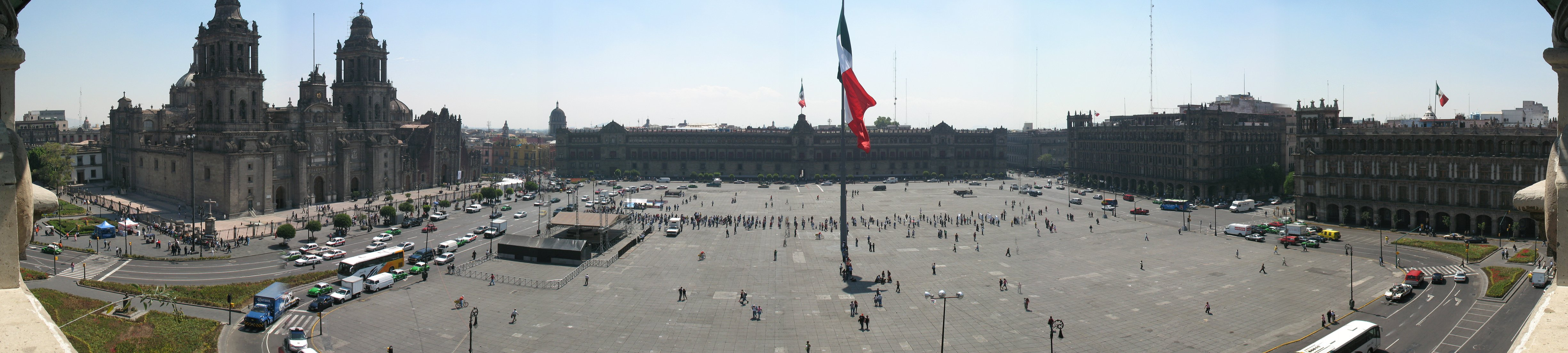 Panoramic view of Zócalo, Mexico City. Seen from rooftop restaurant.